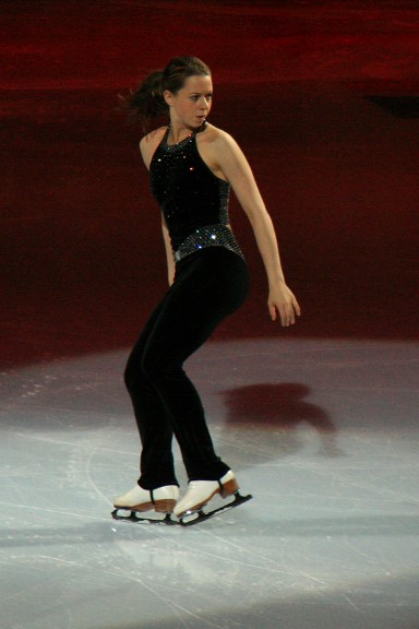 Emily Hughes sets up for a double axel during her exhibition program at the 2006 Skate America.